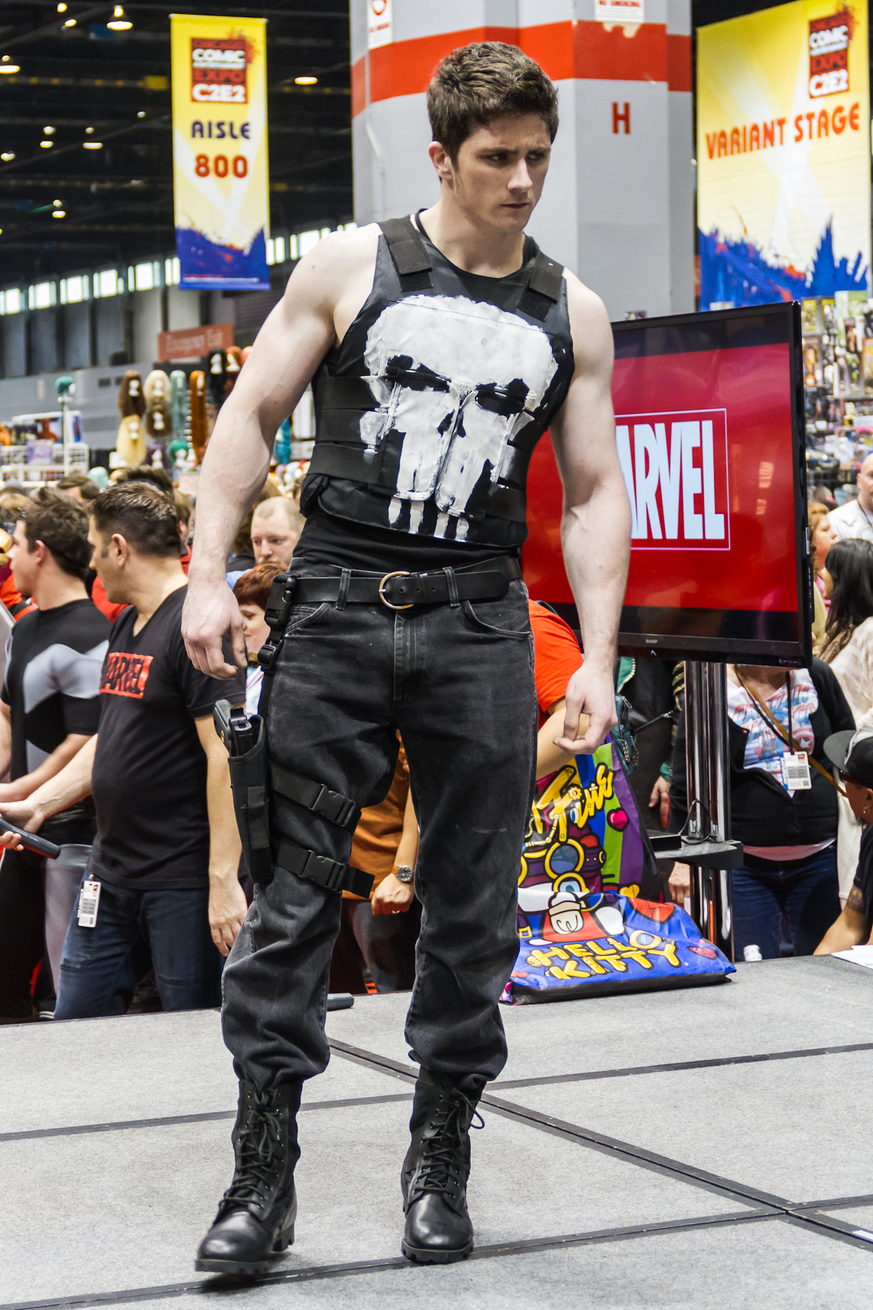 Punisher at C2E2 2012 Marvel Costume contest.